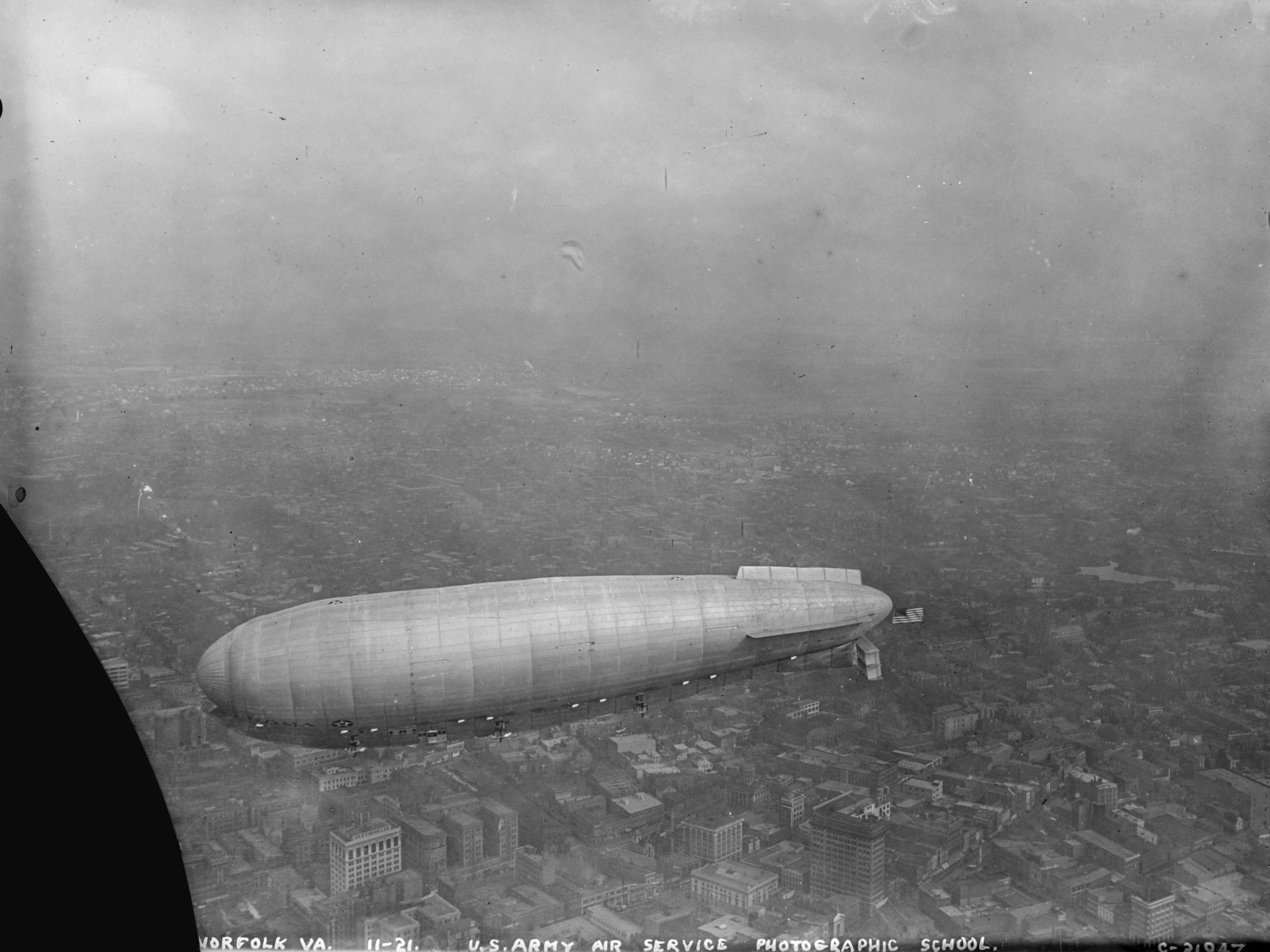 The U.S. Army airship "Roma" over Norfolk, Virginia (USA) in November 1921.